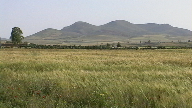 Jbel Lakhdar, Northern view (road Dar Caïd Tounsi - Skhour Rahamna) Walon: Djebel Xhedar, Costé al Bijhe (del voye di ar Caïd Tounsi ås Skhour des Rahamna)